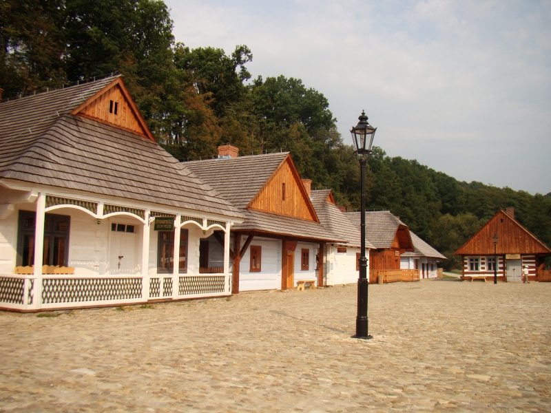 Galician market square in Skansen, Sanok